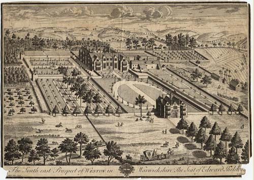 View from the south east of Weston House, Long Compton, Warwickshire, home of Sheldon family. Print from engraving by Henry Beighton, 1716, first published in Sir William Dugdale's Antiquities of Warwickshire, 1730.